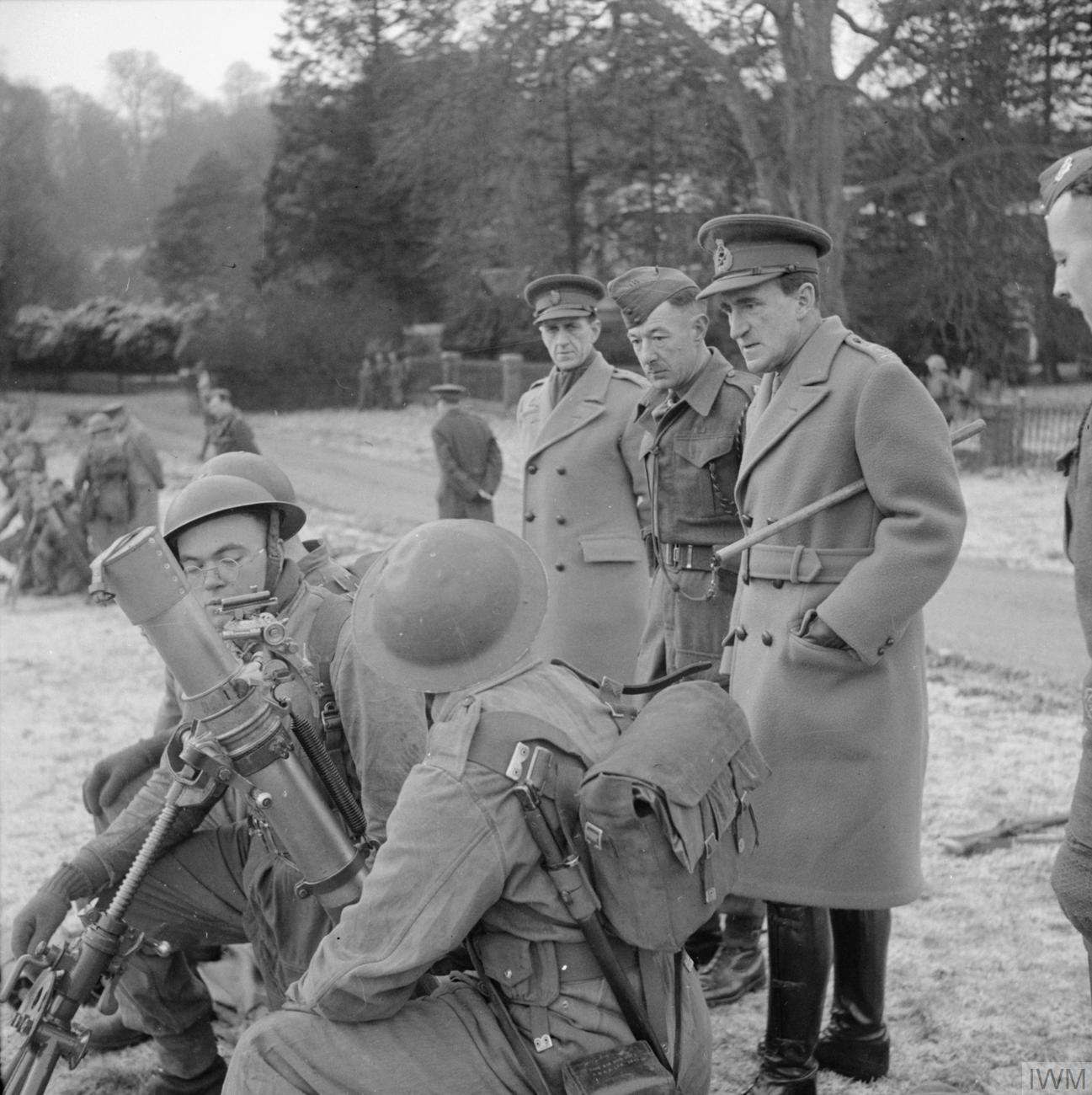 The British Army in the United Kingdom 1939-45 General Sir Bernard Paget, C-in-C Home Forces, inspecting a 3-inch mortar crew, 9 January 1943.